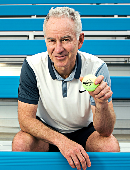 Tennis legend John McEnroe, in a promo photo for Eurosport.